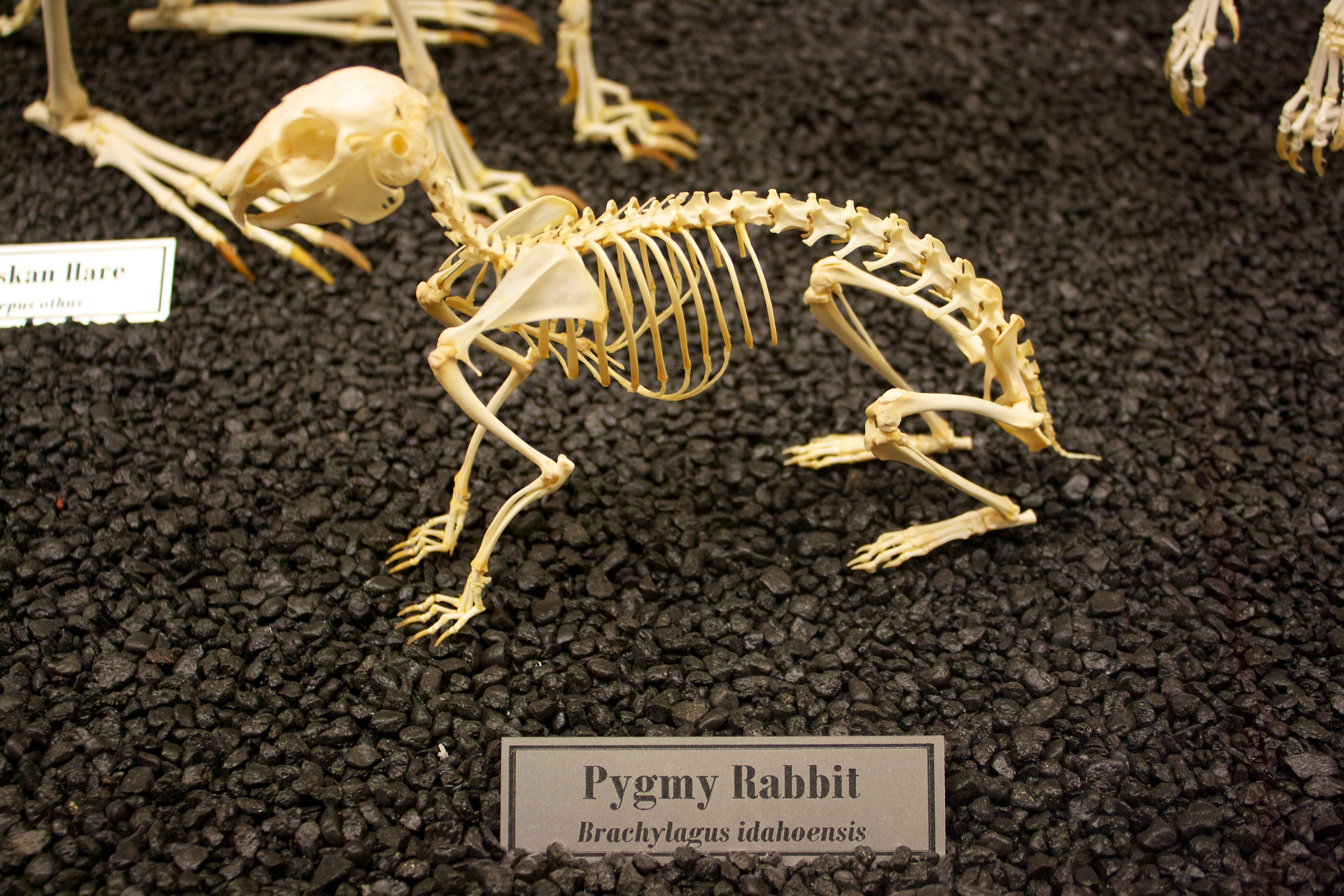 Skeleton of a Brachylagus idahoensis at the Osteology Museum of Oklahoma